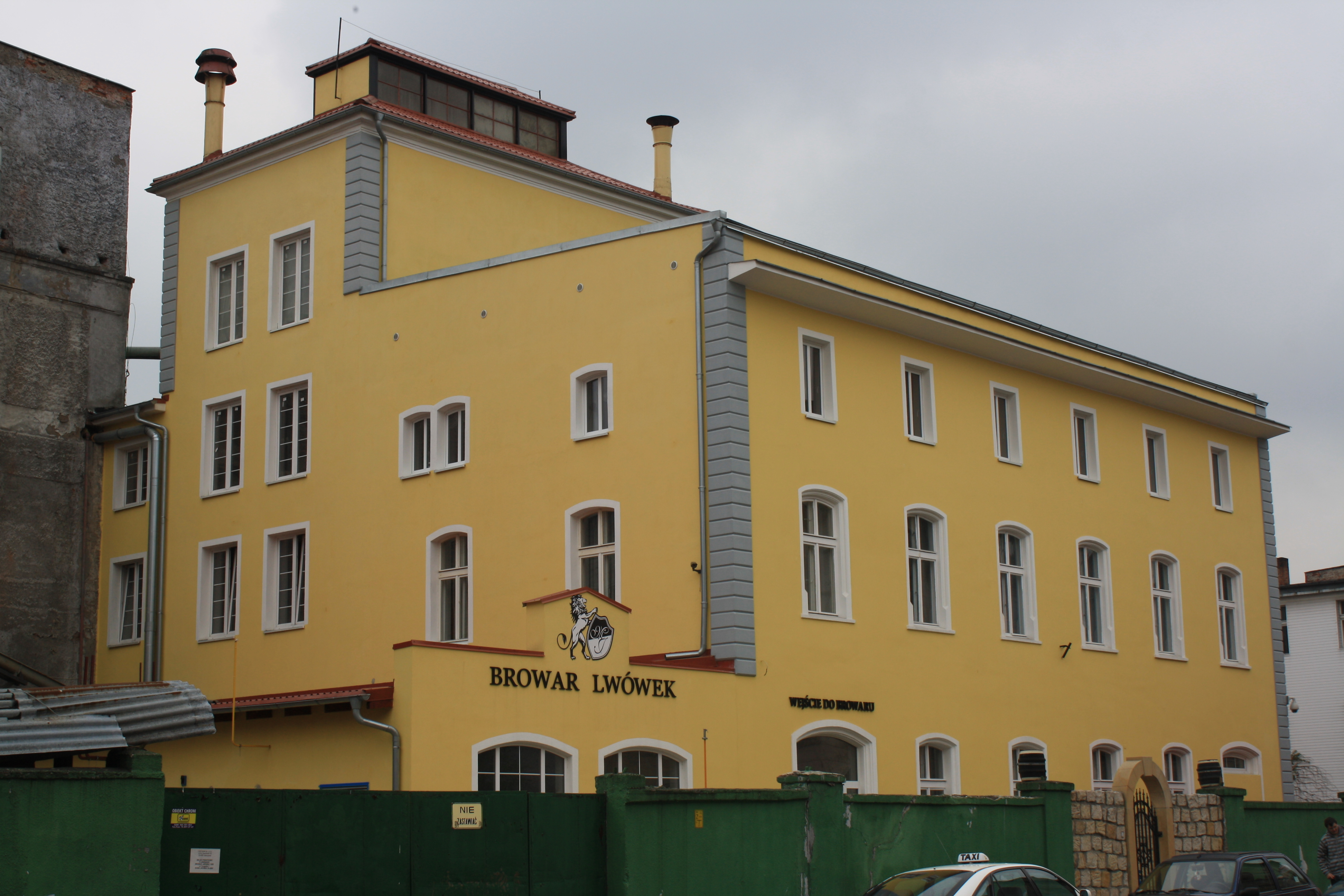 The oldest private brewery in Poland